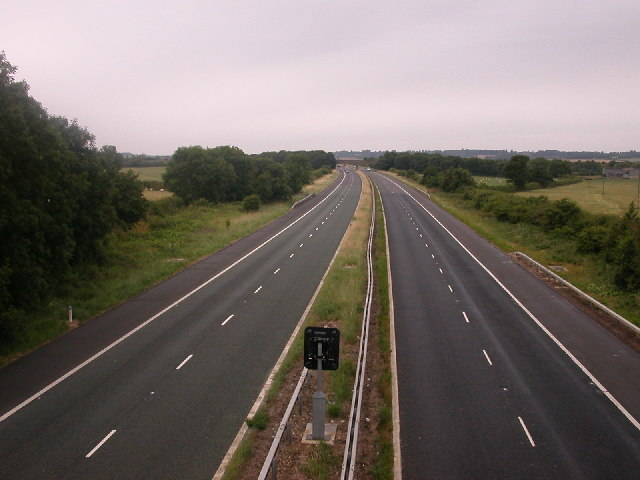 M45 Motorway near Barby Main link between West Midlands and M1 Motorway before M6 was connected.